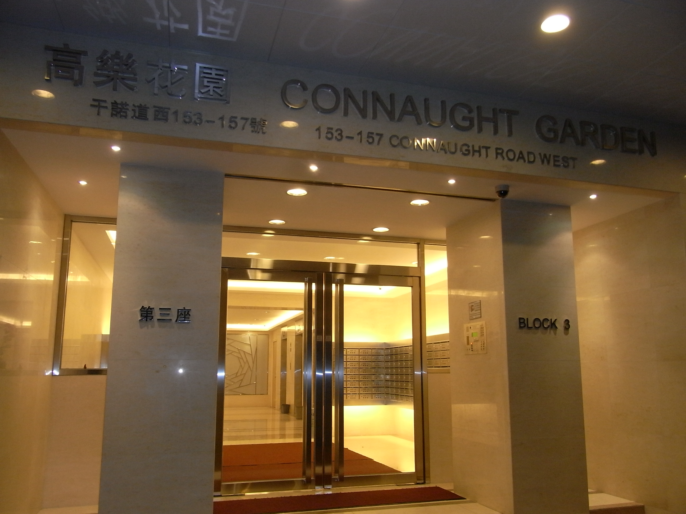 高樂花園, Connaught Garden, 153-157 Connaught Road West, Hong Kong